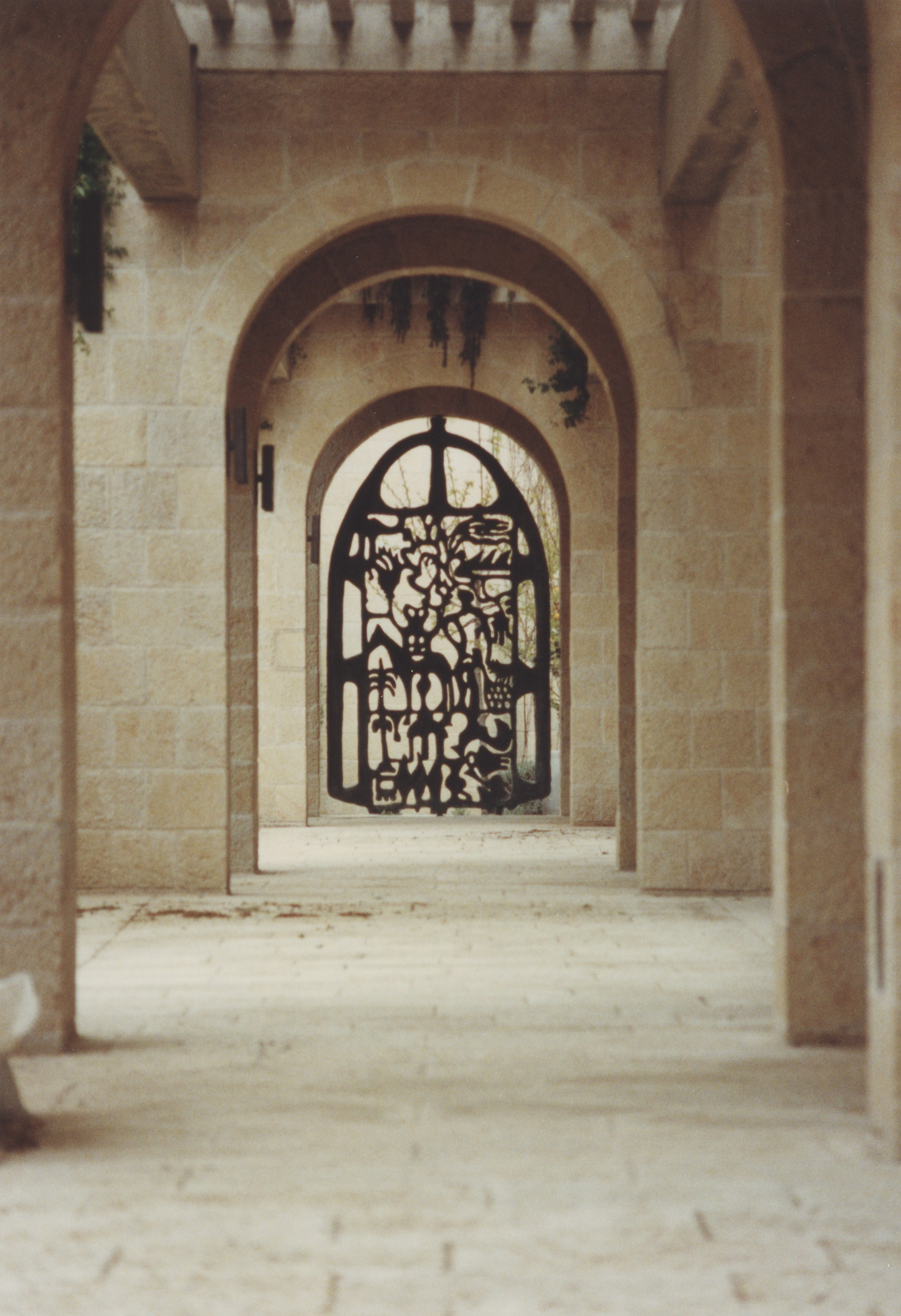 modern architectur in Jerusalem (Jerusalem stone), Y.M.C.A. Youth hostel